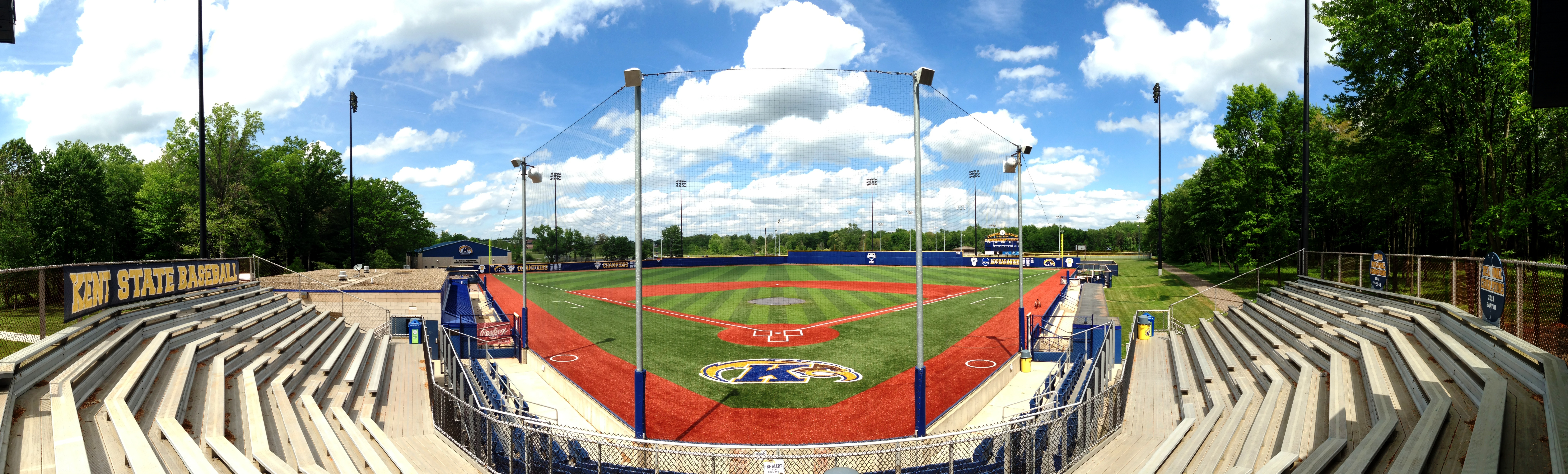 Panorama of Schoonover Stadium on the campus of Kent State University in Kent, Ohio, United States. It is the home of Kent State Golden Flashes baseball. The Dave and Peggy Edmonds Training Facility can be seen beyond left field.